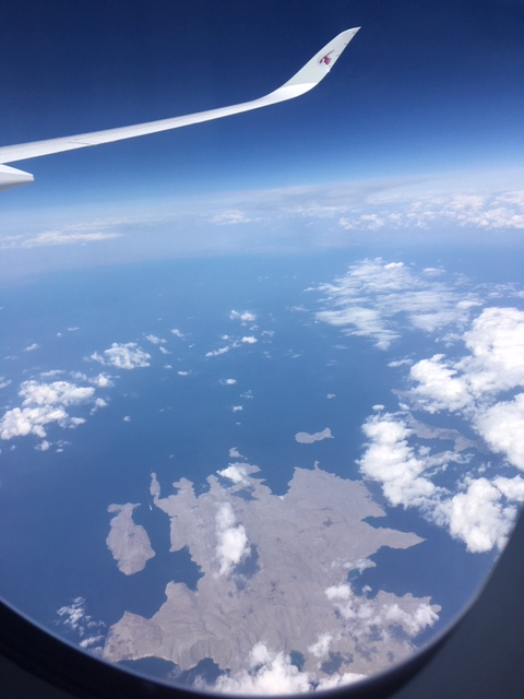 Taken on an afternoon in March, 2020, the Strait of Hormuz is between Oman's Musandam Governorate and the Persian shoreline, visible in the background.